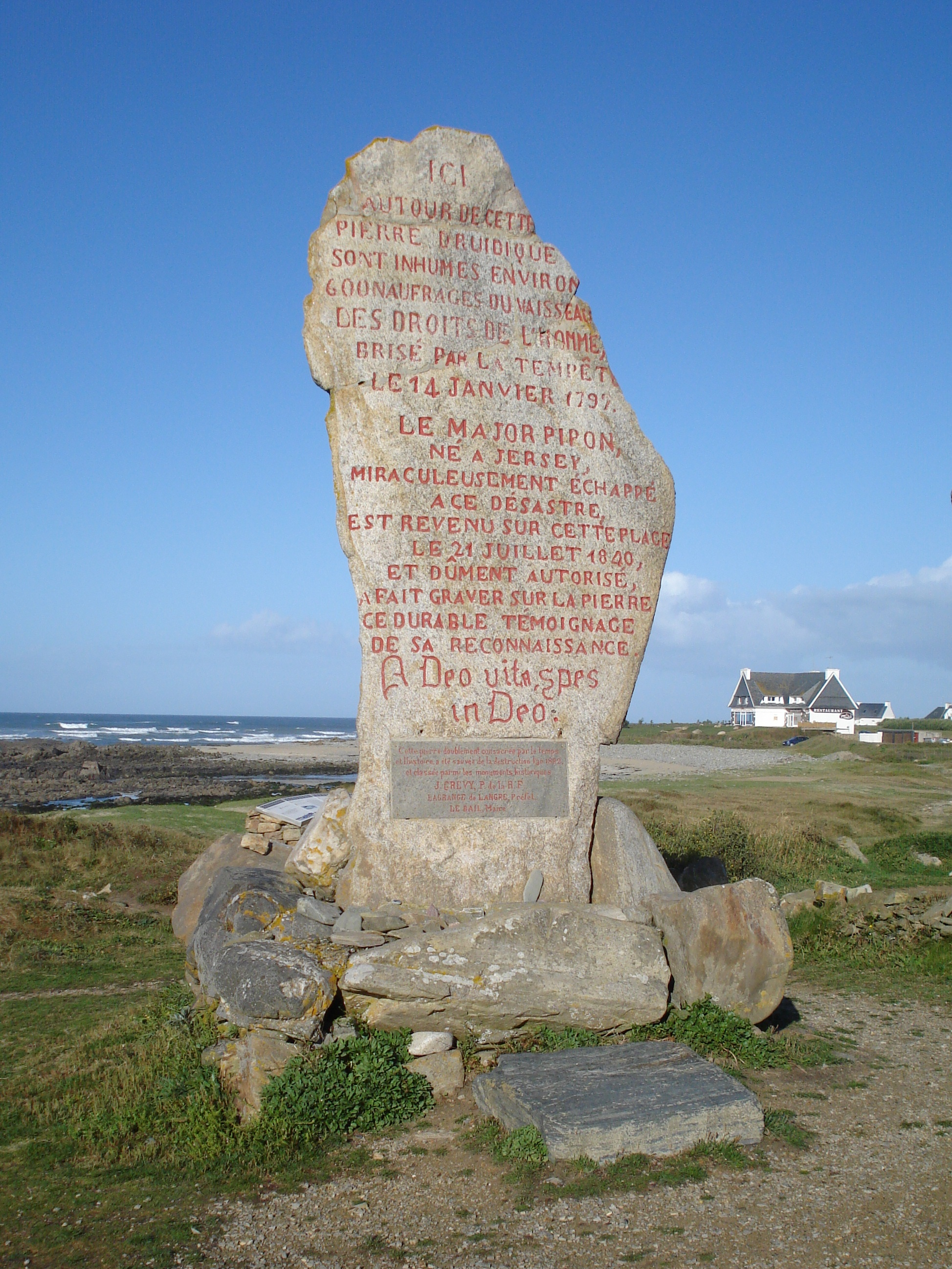 Plovézet (Finistère) Menhir des droits de l'homme